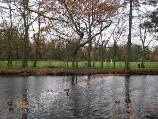 Belair Park Gallery Road - Previously the grounds of Belair House